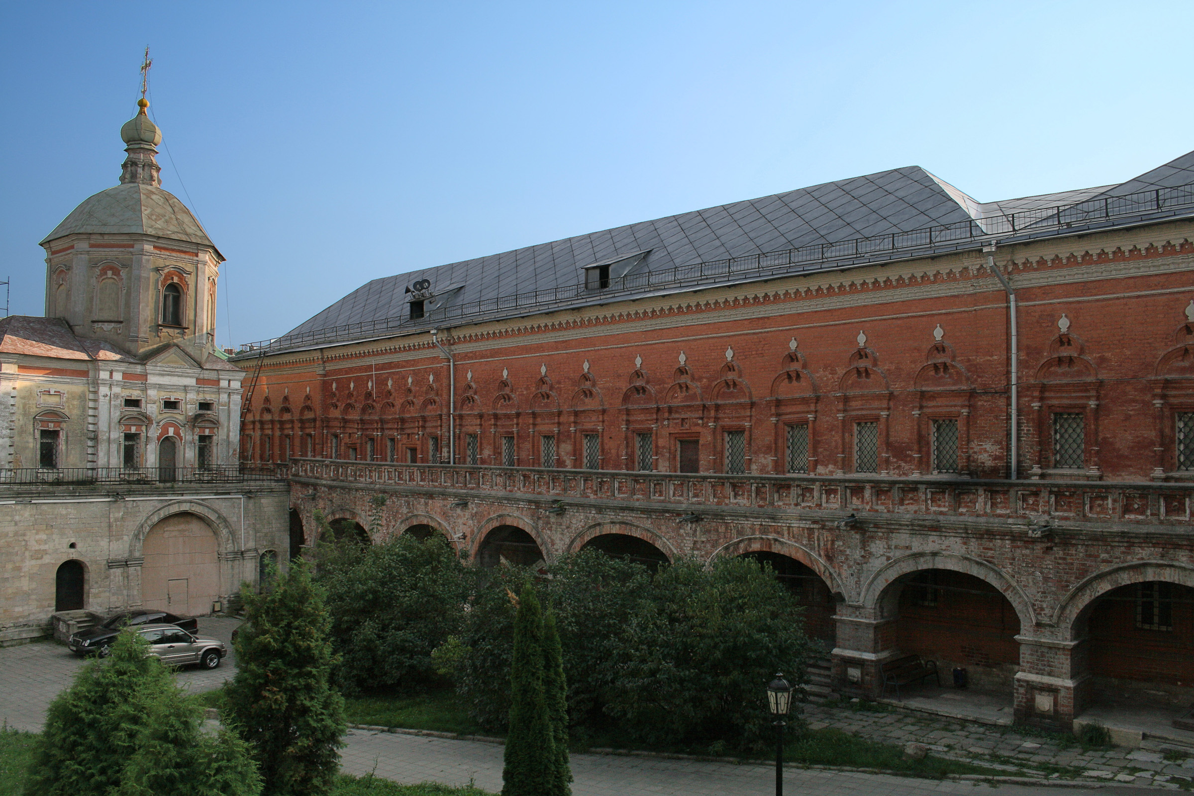 Vysokopetrovsky Monastery, Naryshkins Cells and Church Of St. Pachomius the Great, 1755